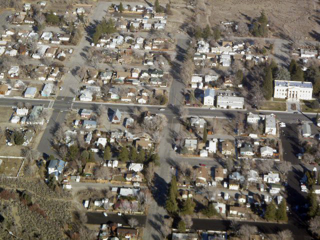 Independence, California from the air. You can see the desert at the upper right and lower left. That is the edge of town.